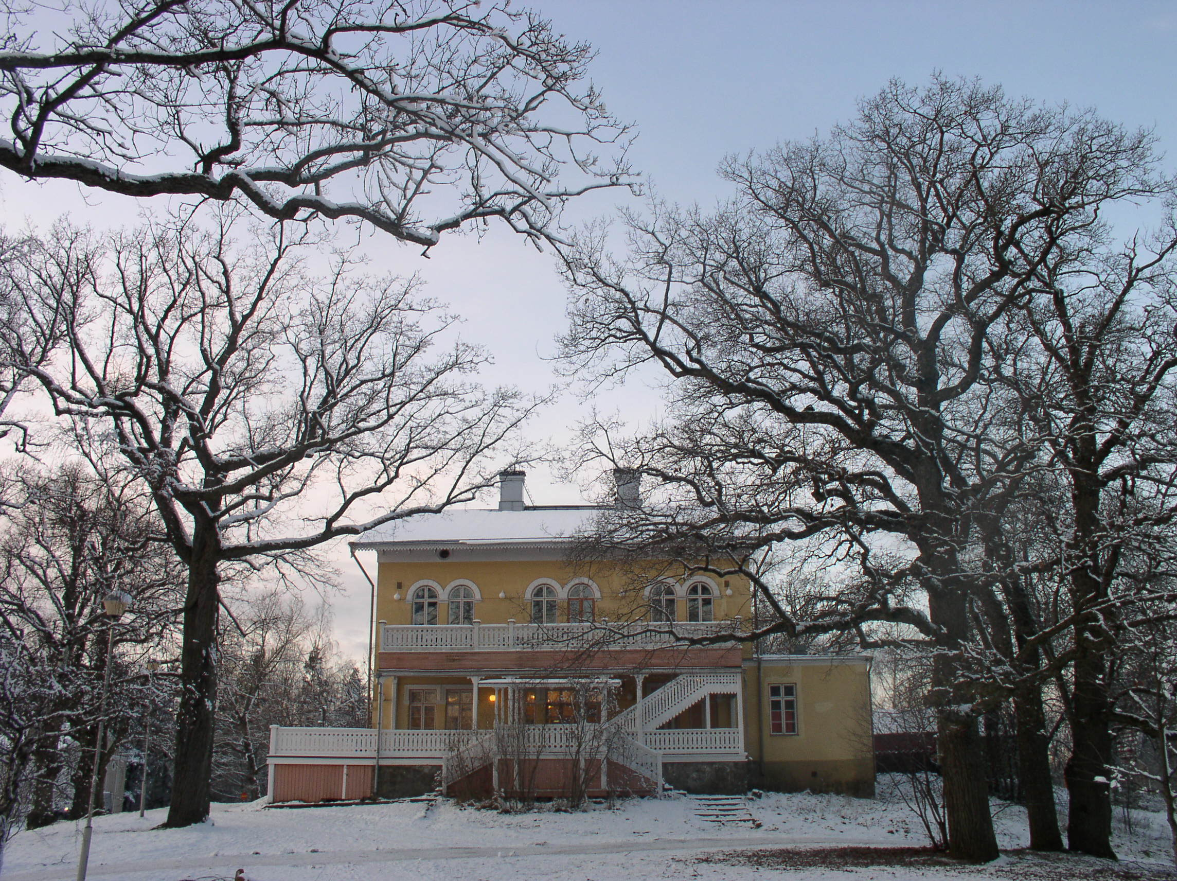 The main building of Ruissalo folkpark in Turku, Finland.